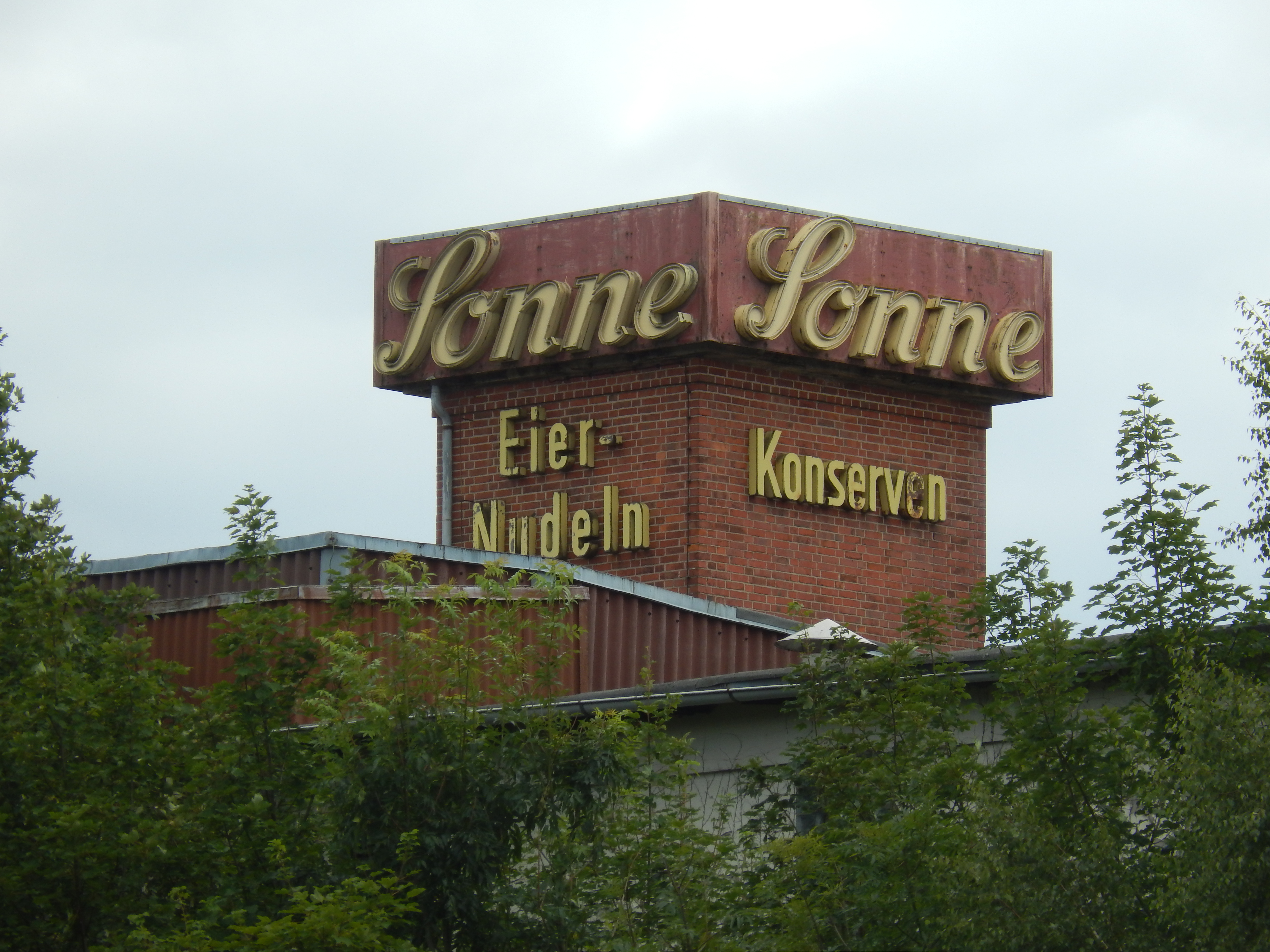 Commercial ad in Seesen, Germany.